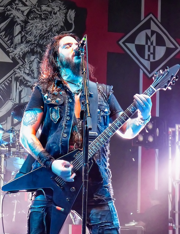 Robb Flynn performing with Machine Head, live Barcelona 14/11/2014